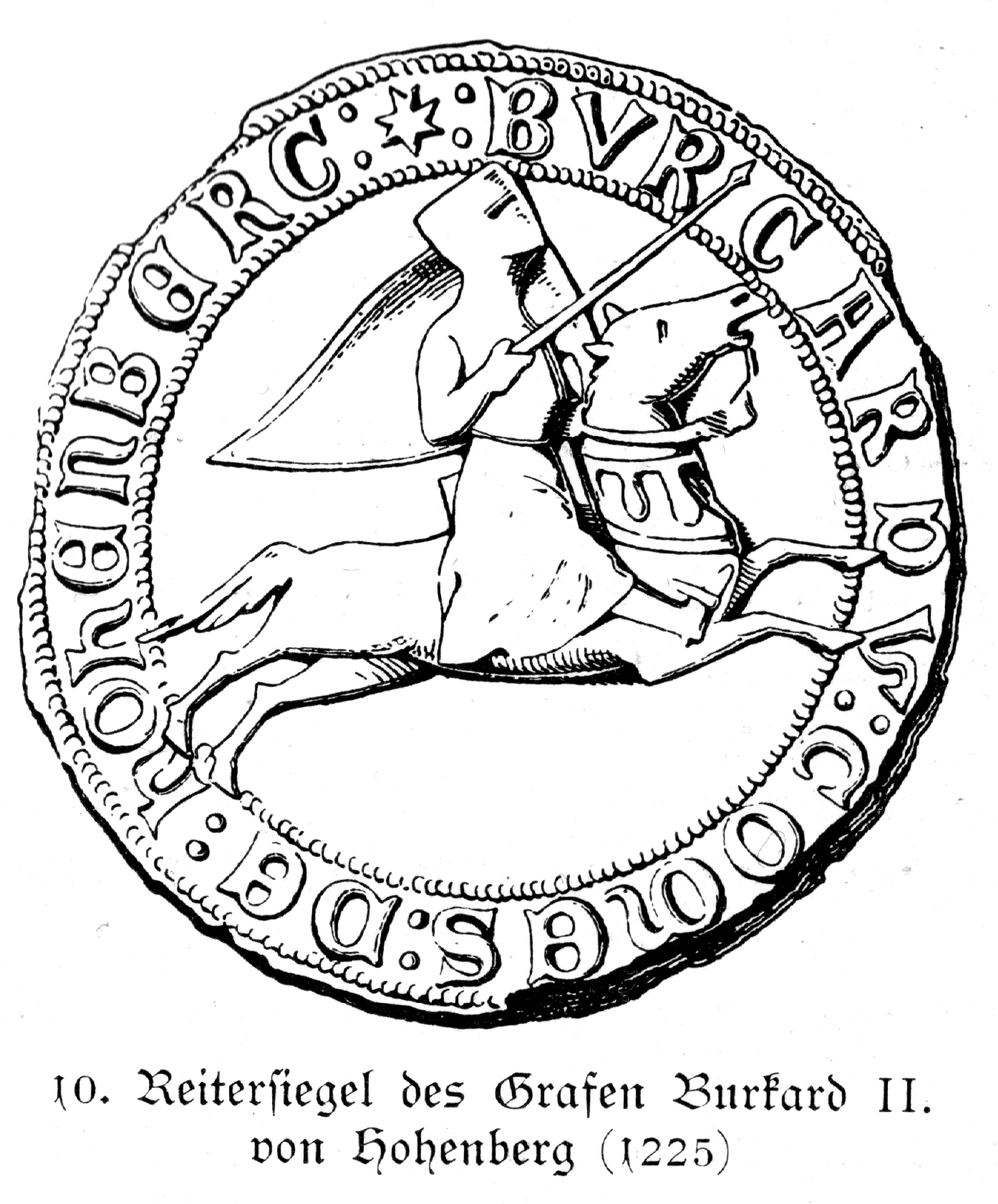 Equestrian seal of Count Burkhard II. of Hohenberg from the year 1225. Taken from: "Die Geschichte des Oberamts Haigerloch" by Franz Xaver Hodler, edited by Dr. Nikolaus Müller in the self-publishing of the district council of Hechingen, 1928. Page 53 (Scan). The inscription says: "BVRCARD COMES DE HOHENBERC" (Burkhard Count of Hohenberg).